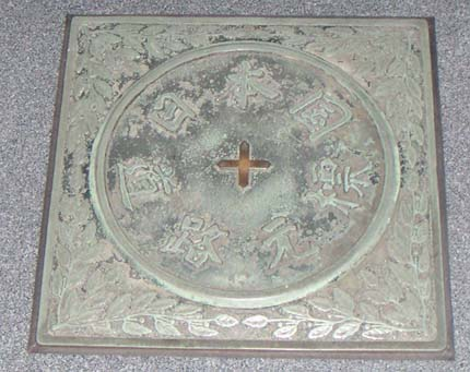 0 km post of Japanese Roads, near Nihonbashi bridge (Replica)